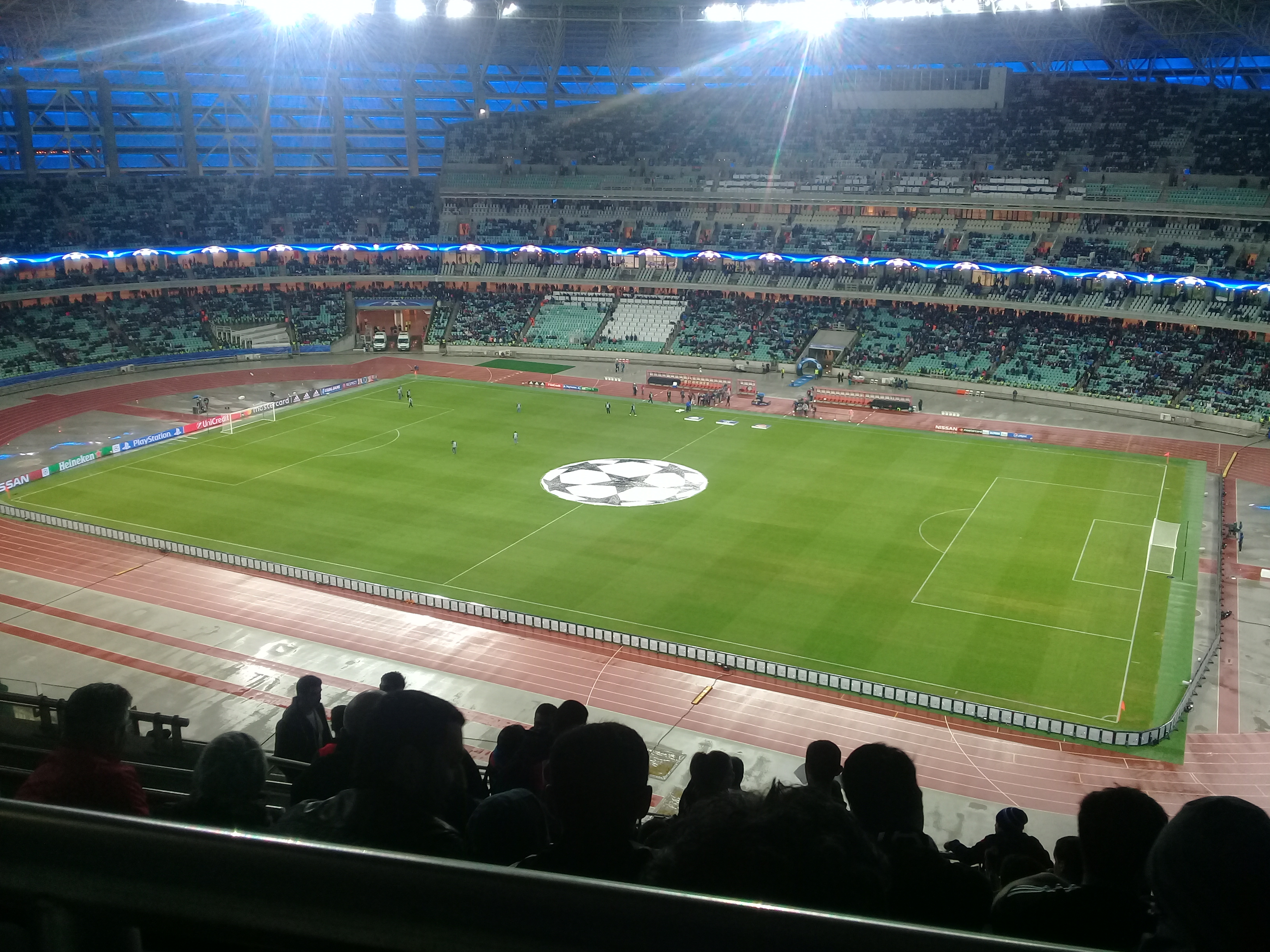 Before the match between Qarabağ FK and AS Roma